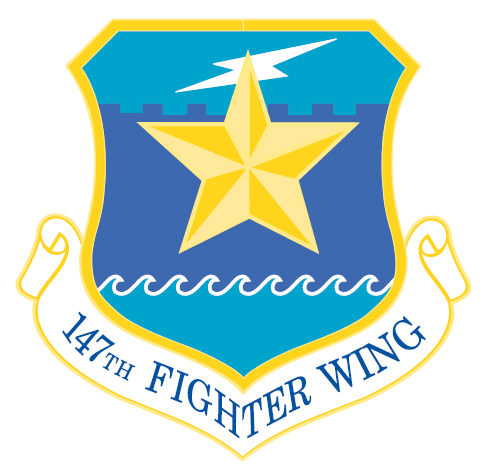 147th Fighter Wing emblem